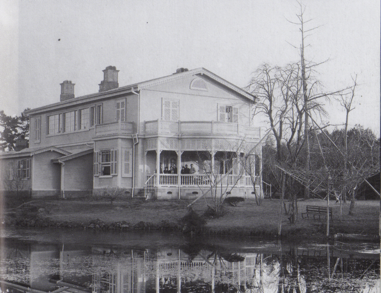 House of Saigo Tsugumichi. Photograph by Hugues Krafft in 1882. Source: "Hugues Krafft au Japon de Meiji", Suzanne Esmein.